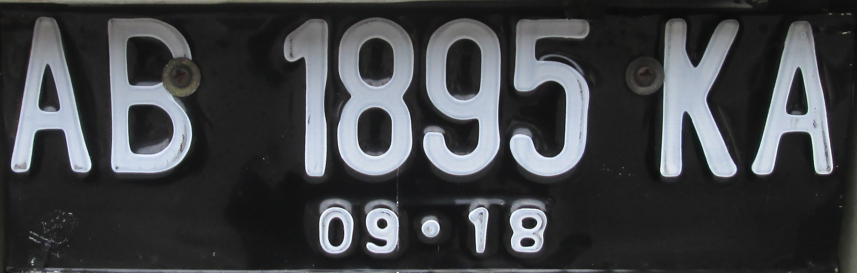 An example of the license number plate design of Yogyakarta, Indonesia. License plate for my grandpa's Suzuki Jimny Katana car.